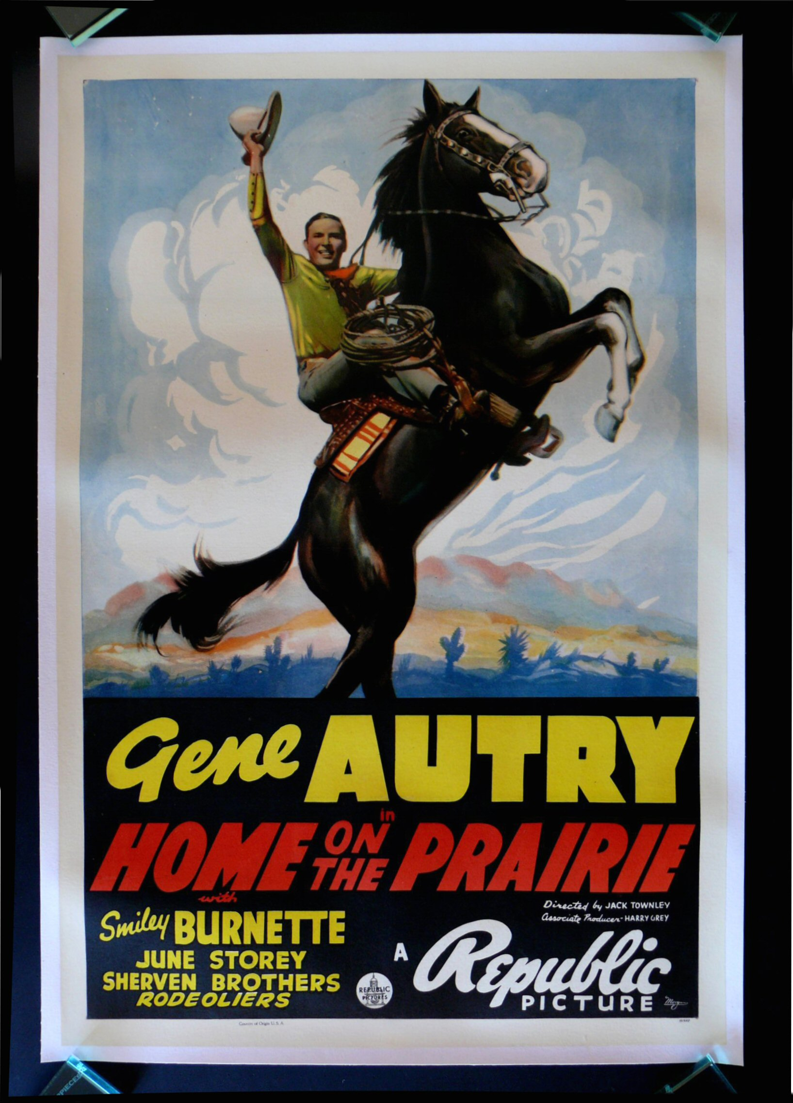 Home on the Prairie (1939) movie poster. Starring Gene Autry.